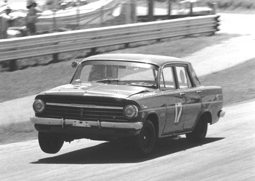 Dick Johnson in his Holden EH at Lakeside International Raceway, 30th November 1969, Photo by Graham Ruckert.